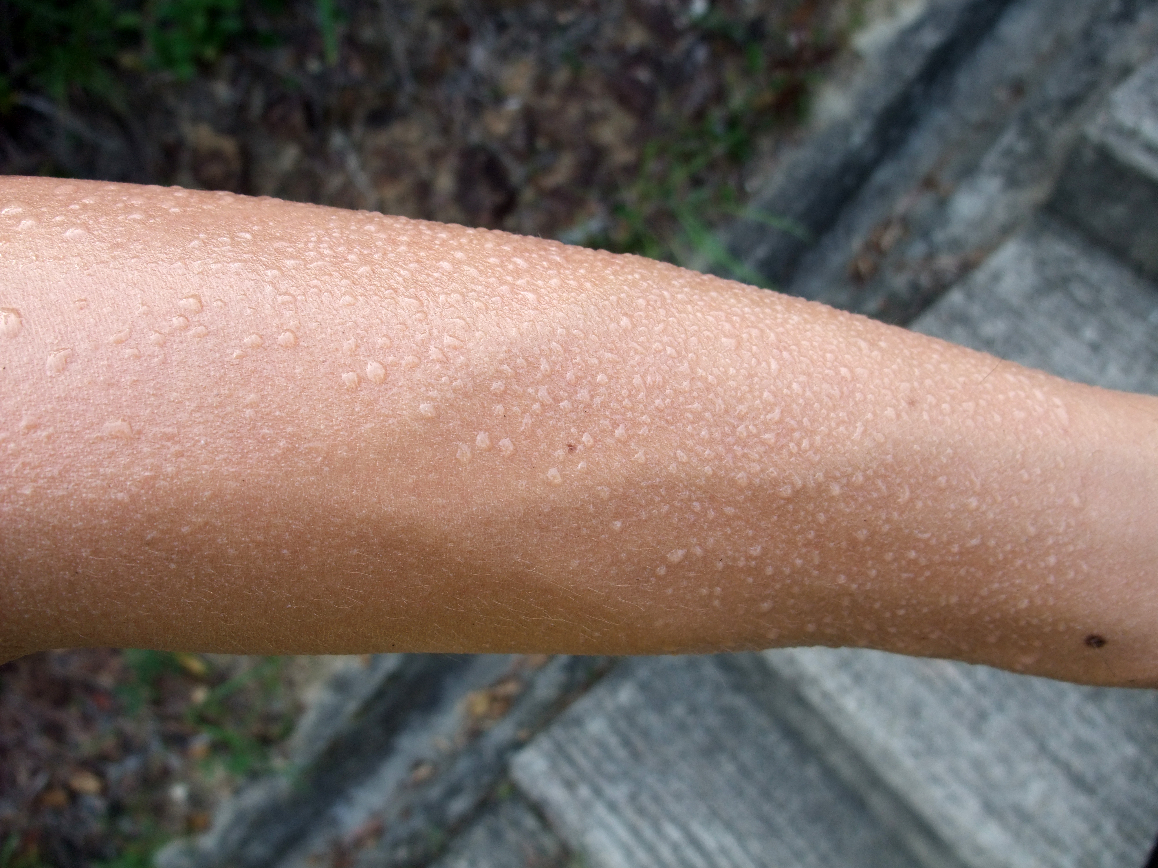 Photo of sweating at Wilson Trail Stage 1